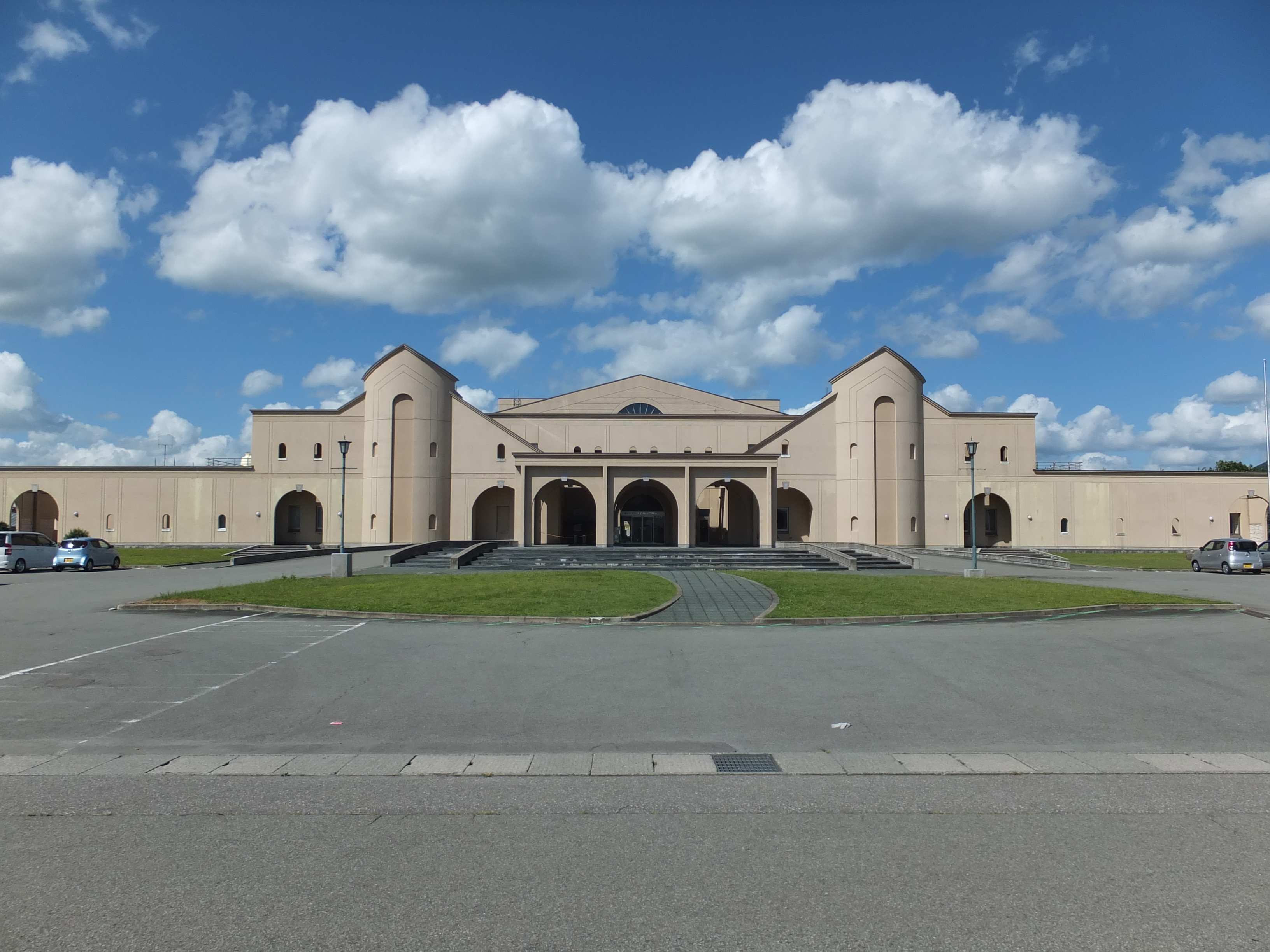 Yokote-Masuda Manga Museum is the museum of comics in Yokote, Akita, Japan